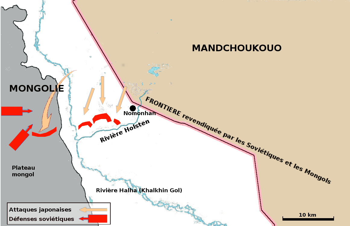 Map of japanese attacs and victorious soviet defenses in khalkhin Gol, begining of July 1939. Based on the map from the book La Mandchourie oubliée, Jacques Sapir, Éditions du rocher, 1996, pages 151.